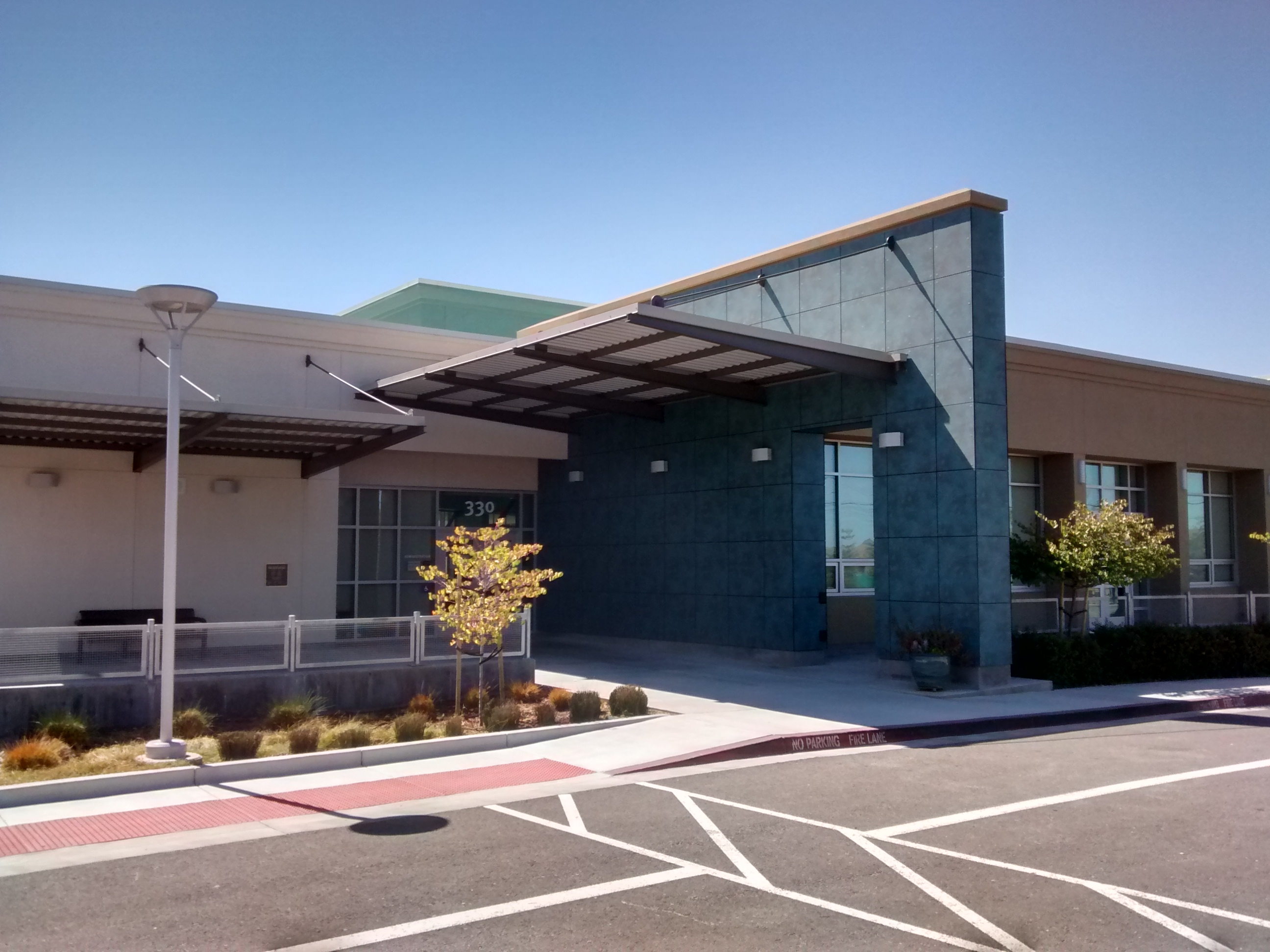 The Cove School, Corte Madera, California.